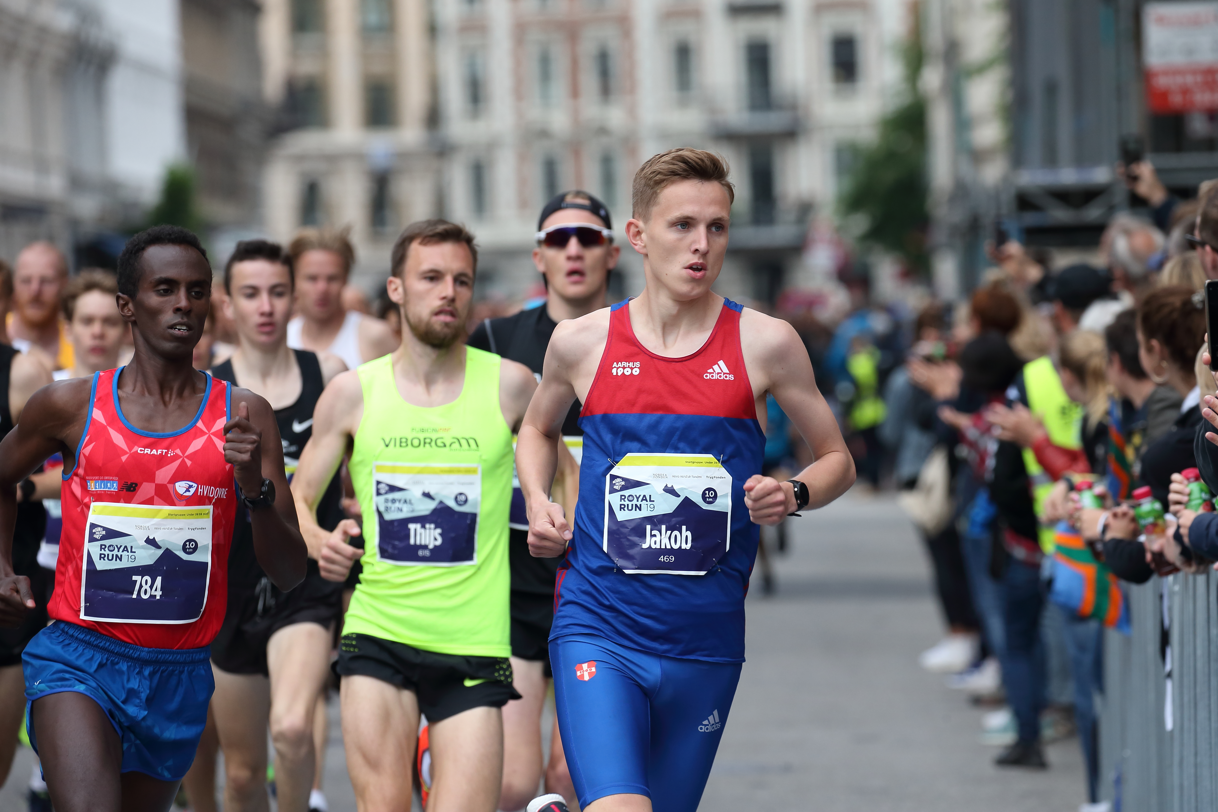 Danish Championship 2019 on 10km distance